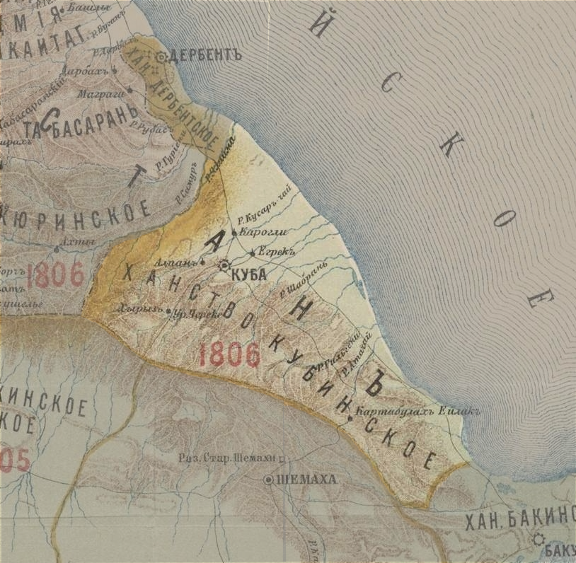 Khanate of Guba in the Map of Caucasus with the borders 1801-1813